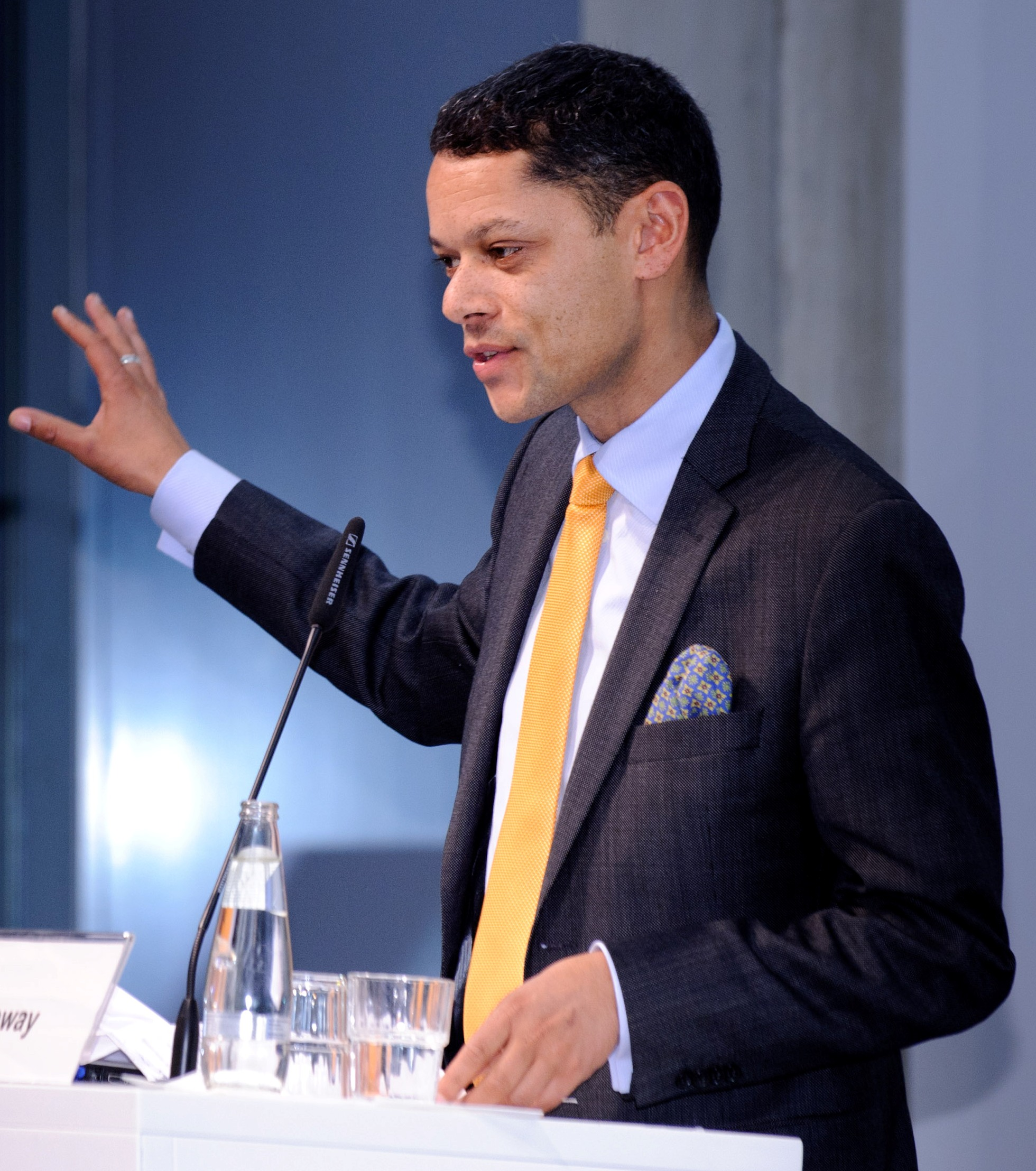 Matt Galloway (Host, Metro Morning Show, Canadian Broadcasting Corporation), speaking at the "Toronto Road Show - Good Ideas from Canada" symposium on local multiculturalism policies, in Berlin, Germany.